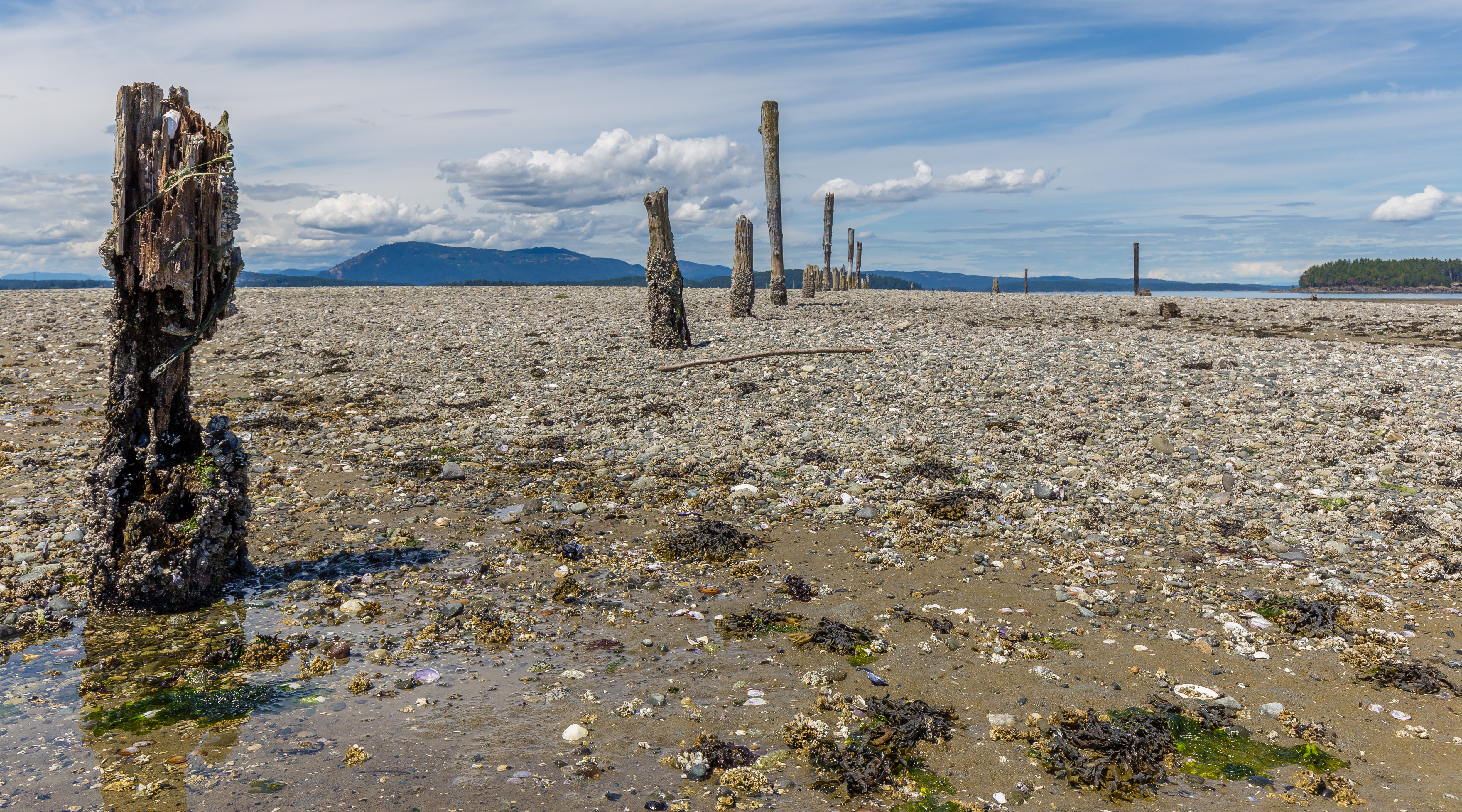 Old rotting pillars which used to support a pier. The photo taken during low tide as during high tide the whole area and bottom parts of the pillars are under water. Sidney Spit (part of Gulf Islands National Park Reserve), Sidney Island, British Columbia, Canada